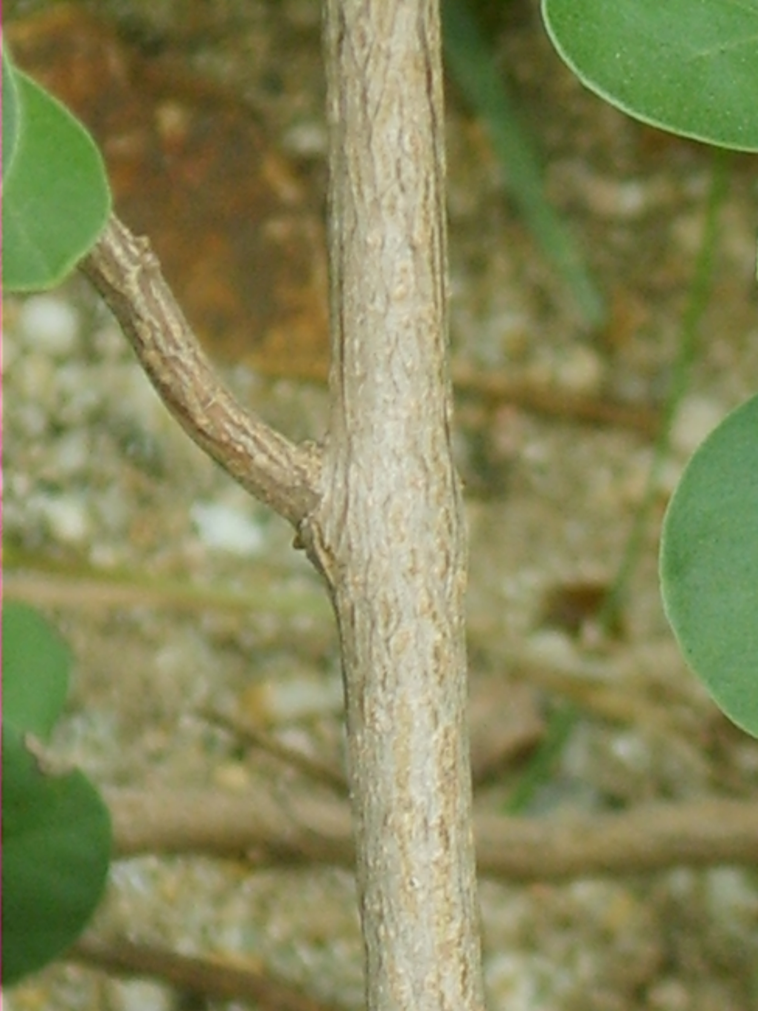 Vitex rotundifolia in Incheon, Korea